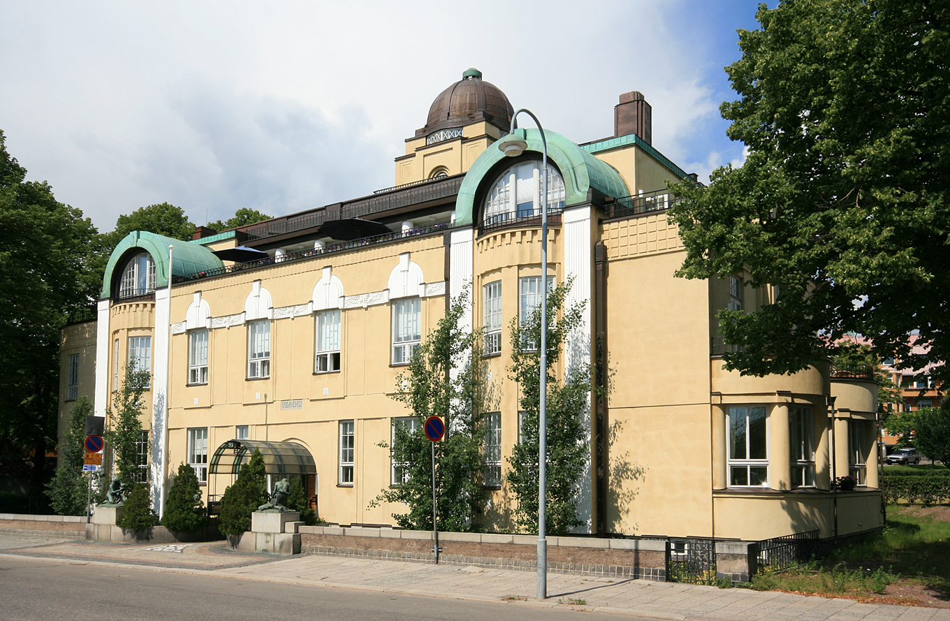 Villa Ensi, Eira, Helsinki. Architect: Selim A. Lindqvist.